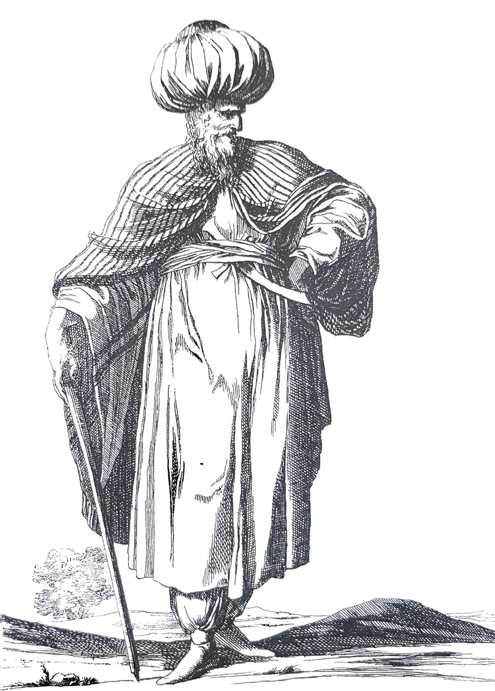 The earliest known portrait of emir. It was published by Eugene Roger, A French Franciscan in Nazareth, who was one of Fakhr al-Din's physicians in the last year of his reign (1632-33).